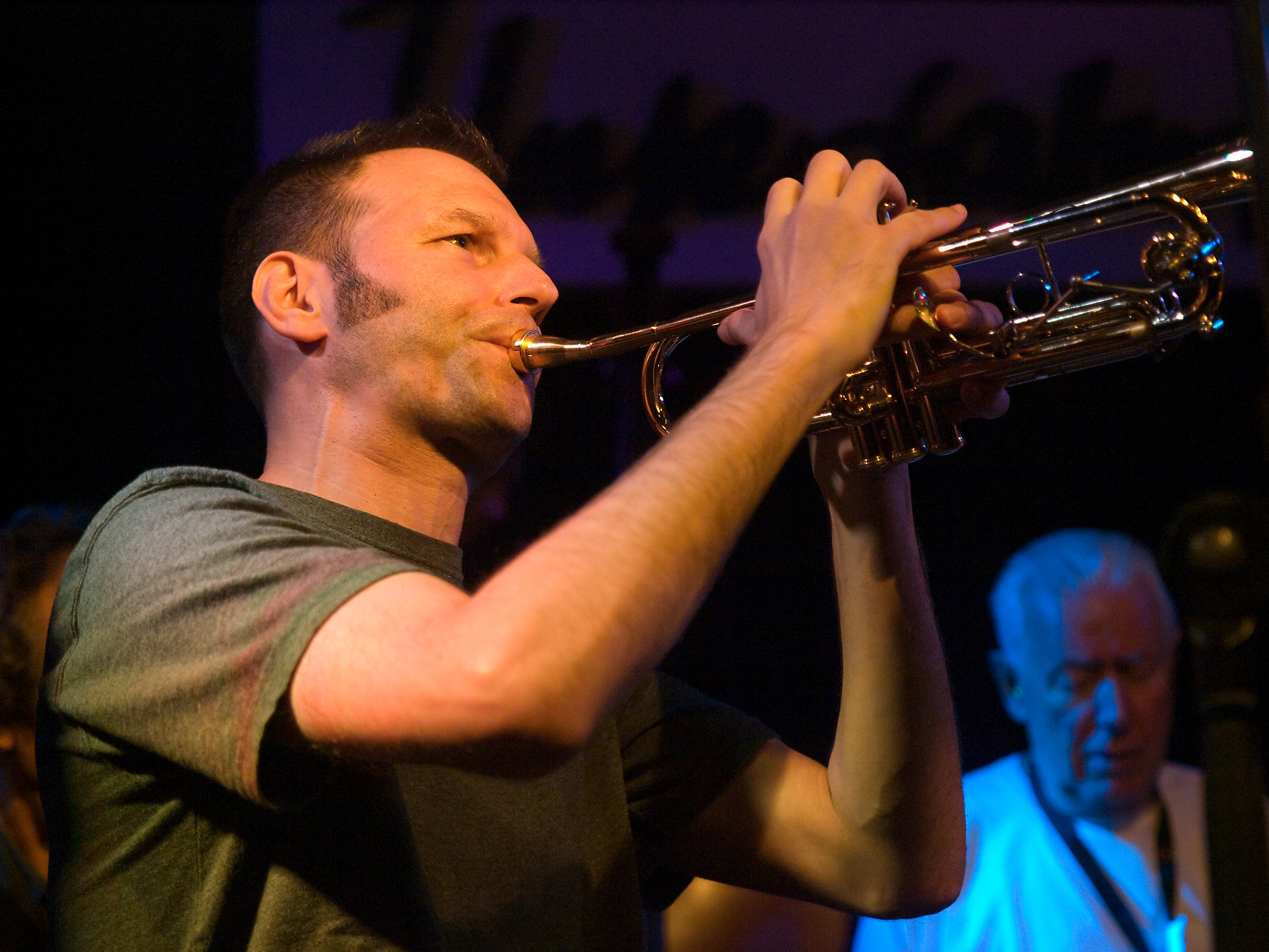 Thomas Heberer, Jazz trumpeter; Picture taken in Jazz Club Unterfahrt, Munich/Bavaria